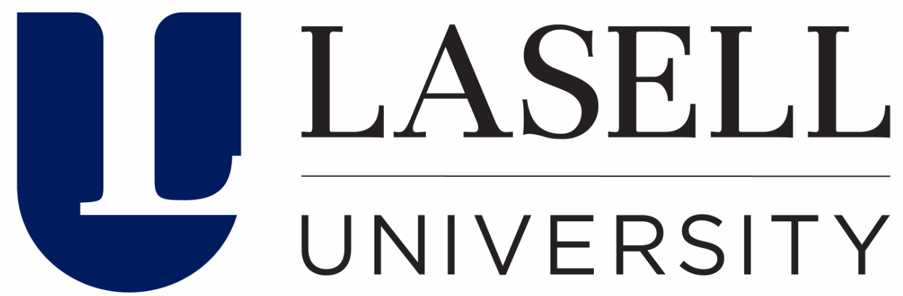 New Logo 2020